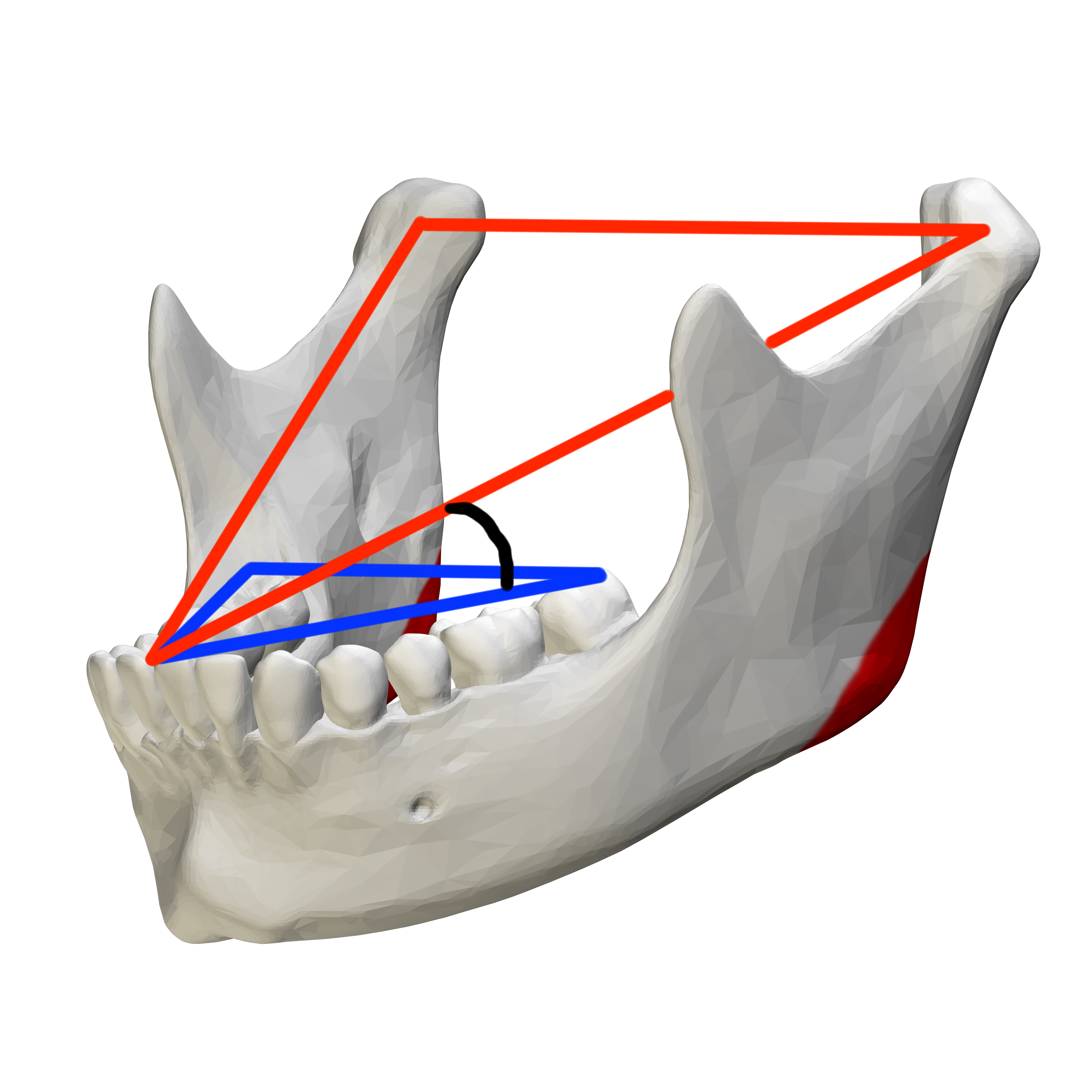 Balkwill angle